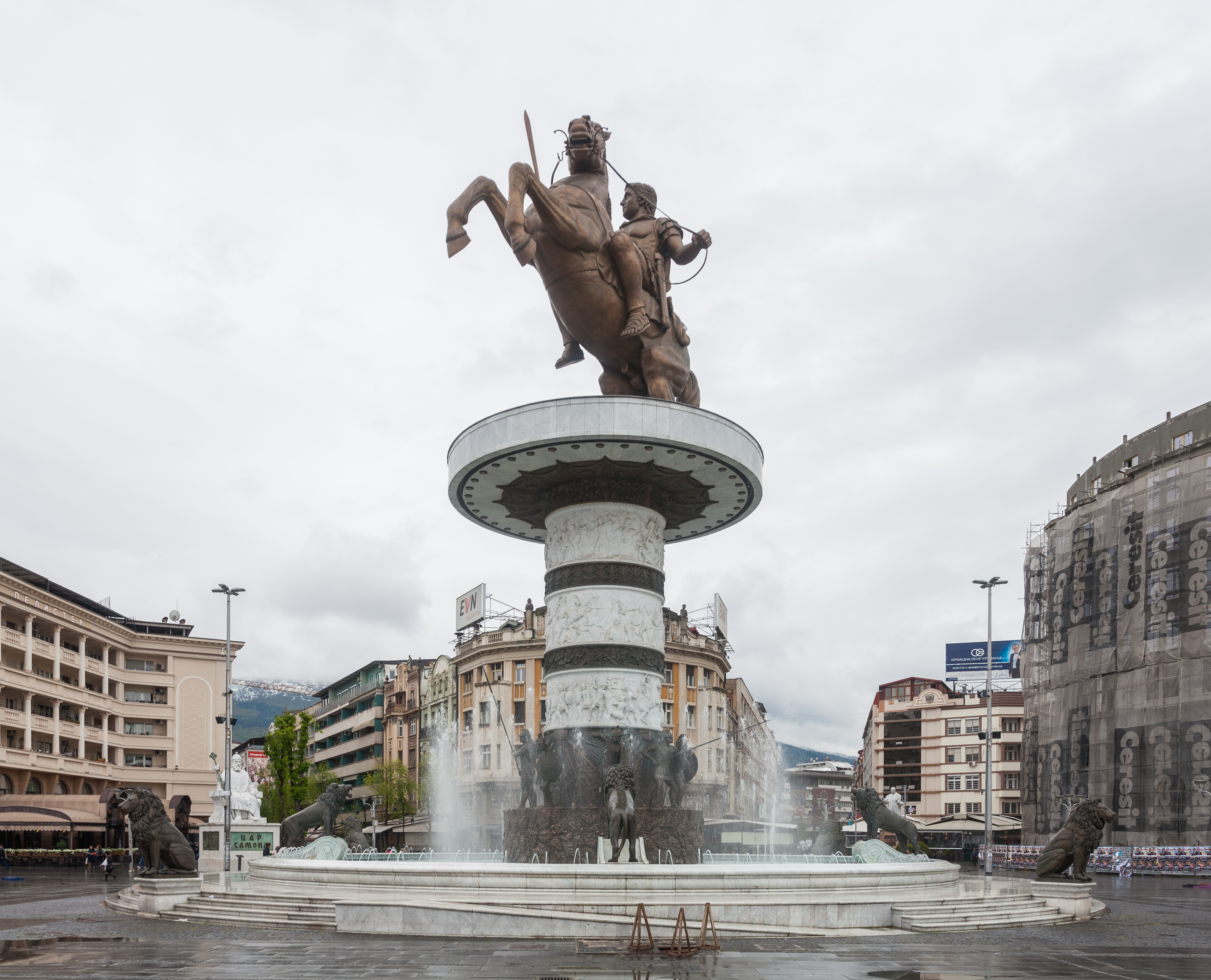 Warrior on Horseback, Skopje, Macedonia